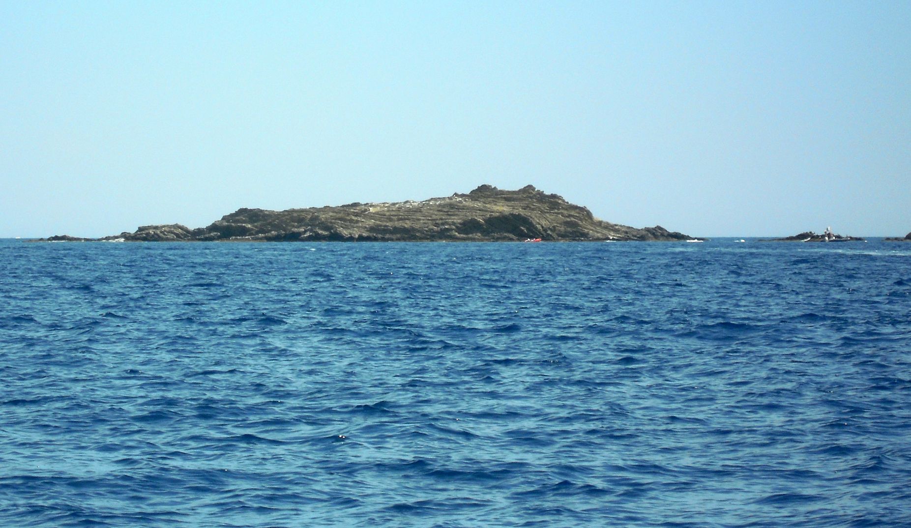 Messina seen from Cadaques' bay